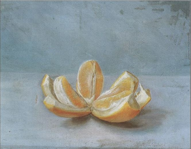 Still Life with Orange, Suleyman SeyyidTürkçe: Portakallı Natürmont, Süleyman Seyyid